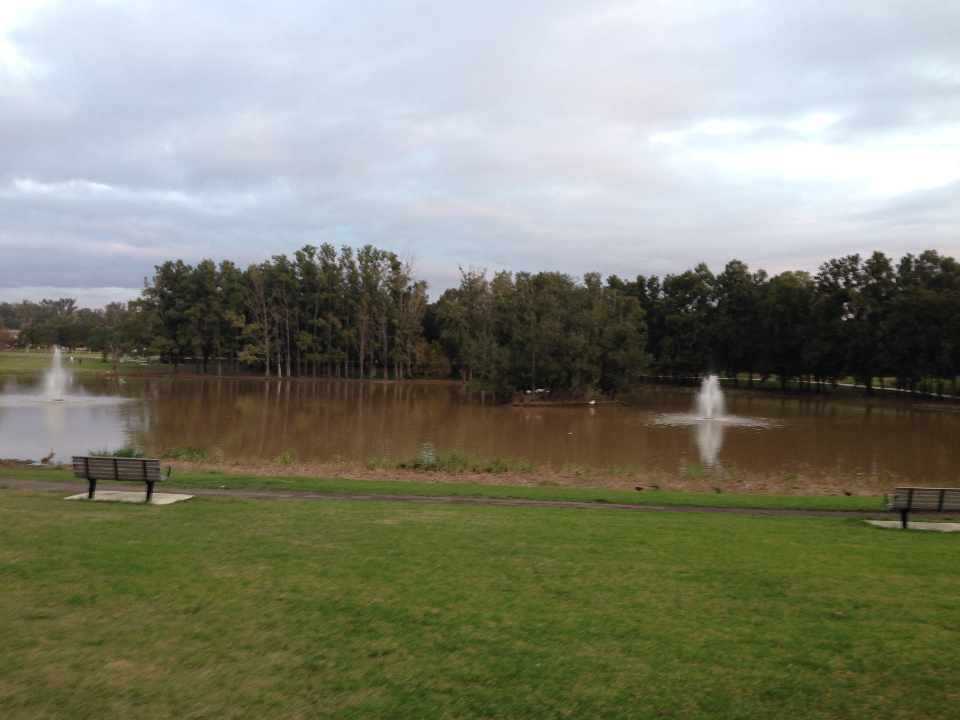 Werrington Lakes Flora and Fauna Reserve, Werrington, Sydney, Australia